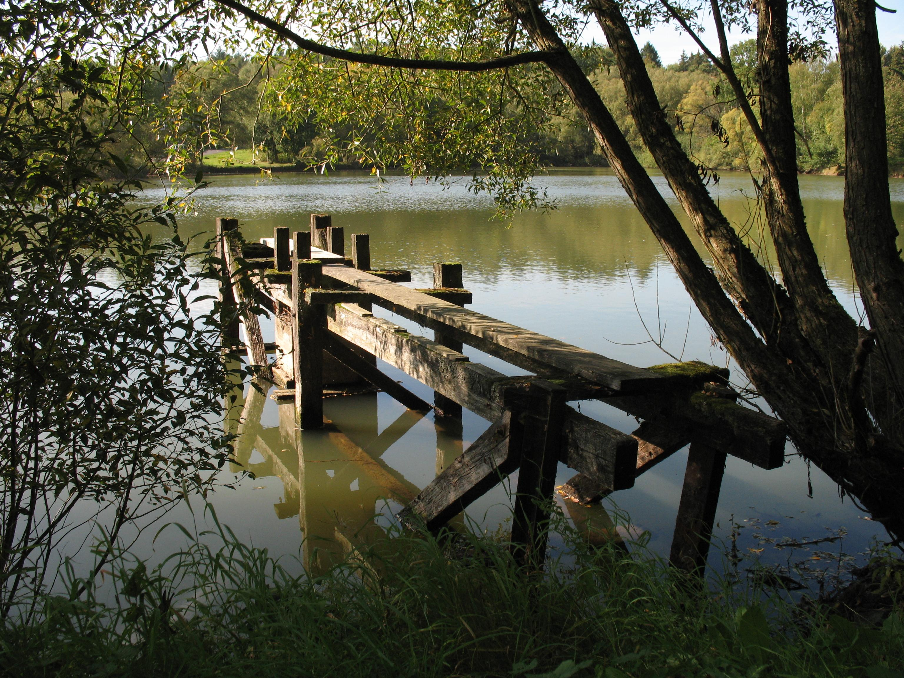 Lake in Mücke-Atzenhain in Hesse, Germany